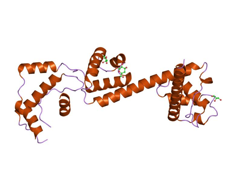 Cartoon representation of the molecular structure of protein registered with 1ofc code.